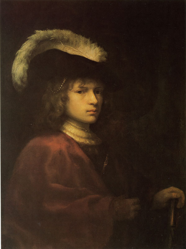 This image is available from the Netherlands Institute for Art Historyunder digital ID 242396. This tag does not indicate the copyright status of the attached work. A normal copyright tag is still required. See Commons:Licensing.